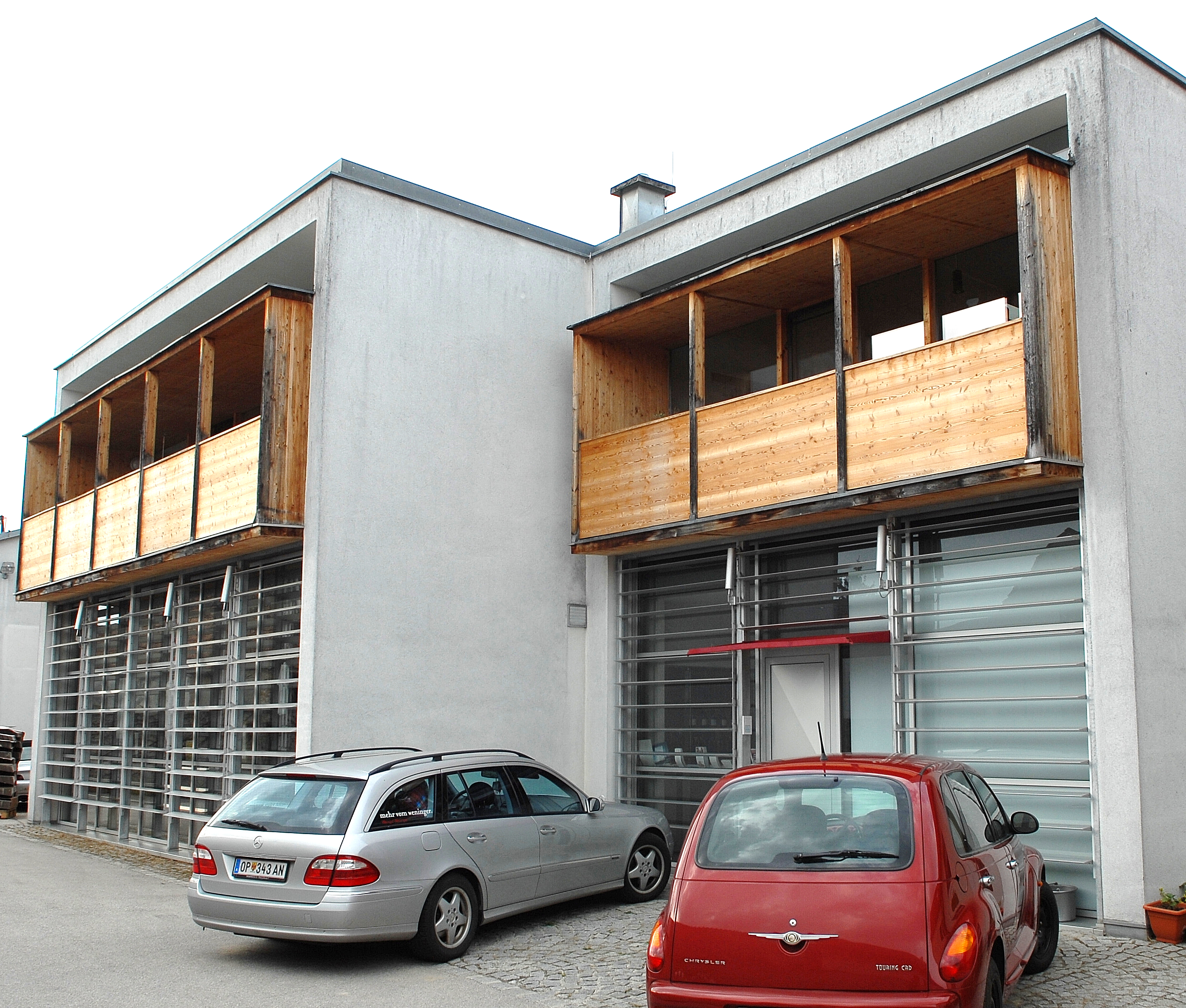 Weingut Weninger, exterieur